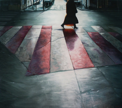 Painting from french painter Patrice Larue. Oil on canvas named Le passage.